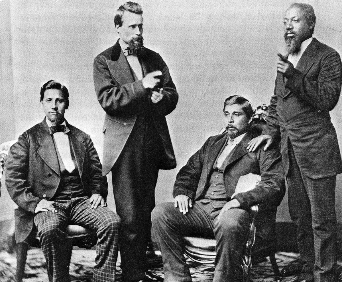 Creeks in Oklahoma, left to right, Lochar Harjo, unidentified man, John McGilvry, and Silas Jefferson (aka. Hotulkomiko).